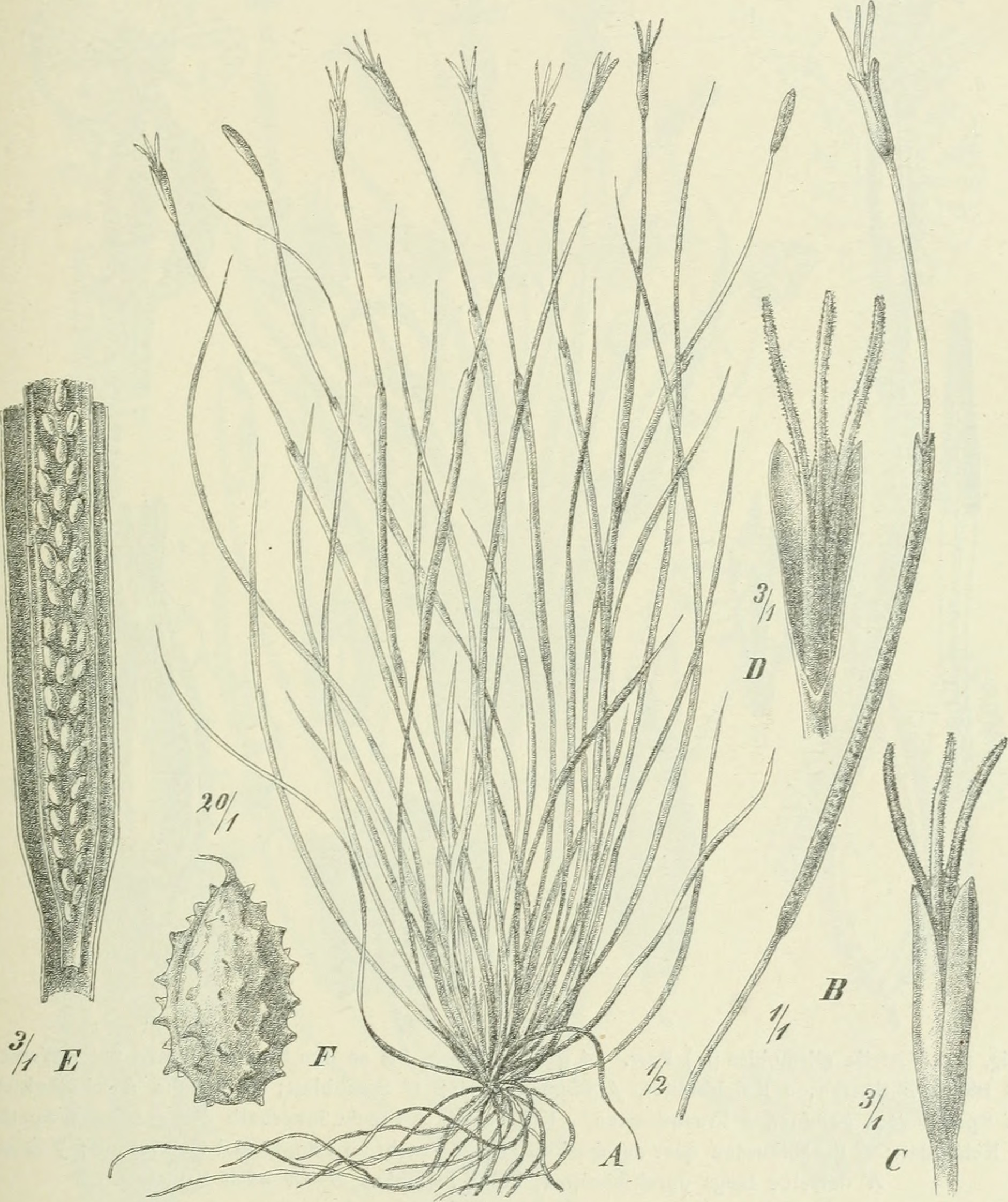 Title: Die Pflanzenwelt Afrikas, insbesondere seiner tropischen Gebiete : Grundzge der Pflanzenverbreitung im Afrika und die Charakterpflanzen Afrikas Year: 1910 (1910s) Authors: Engler, Adolf, 1844-1930 Subjects: Botany Publisher: Leipzig : W. Engelman Text Appearing Before Image: Helobiae. — Hydrocharitaceae. 109 krausen Blättern. Einige andere in Angola und Benguela vorkommende Arten sind kleiner; hier scheint 0. Banviü Gurke besonders verbreitet zu sein. Boottia Wall, ist eine sehr interessante Gattung, von welcher noch viele neue Arten gefunden werden dürften. Sie sind habituell ziemlich verschieden, Text Appearing After Image: Fig. 99. Blyxa octandra (Roxb.; Planch. A weibliche Pflanze; B Spatha mit weiblicher Blüte; C letztere ohne die abgefallenen Blumenblätter, vergr.; D Griffel und Ntirbenschenkel; £ Frucht- knoten im Längsschnitt; F Same stark vergr. Nach Gurke. je nachdem die Blätter sich ganz unter Wasser befinden, über dasselbe hin- wegragen oder mit ihrer Spreite auf demselben schwimmen. Durch drei